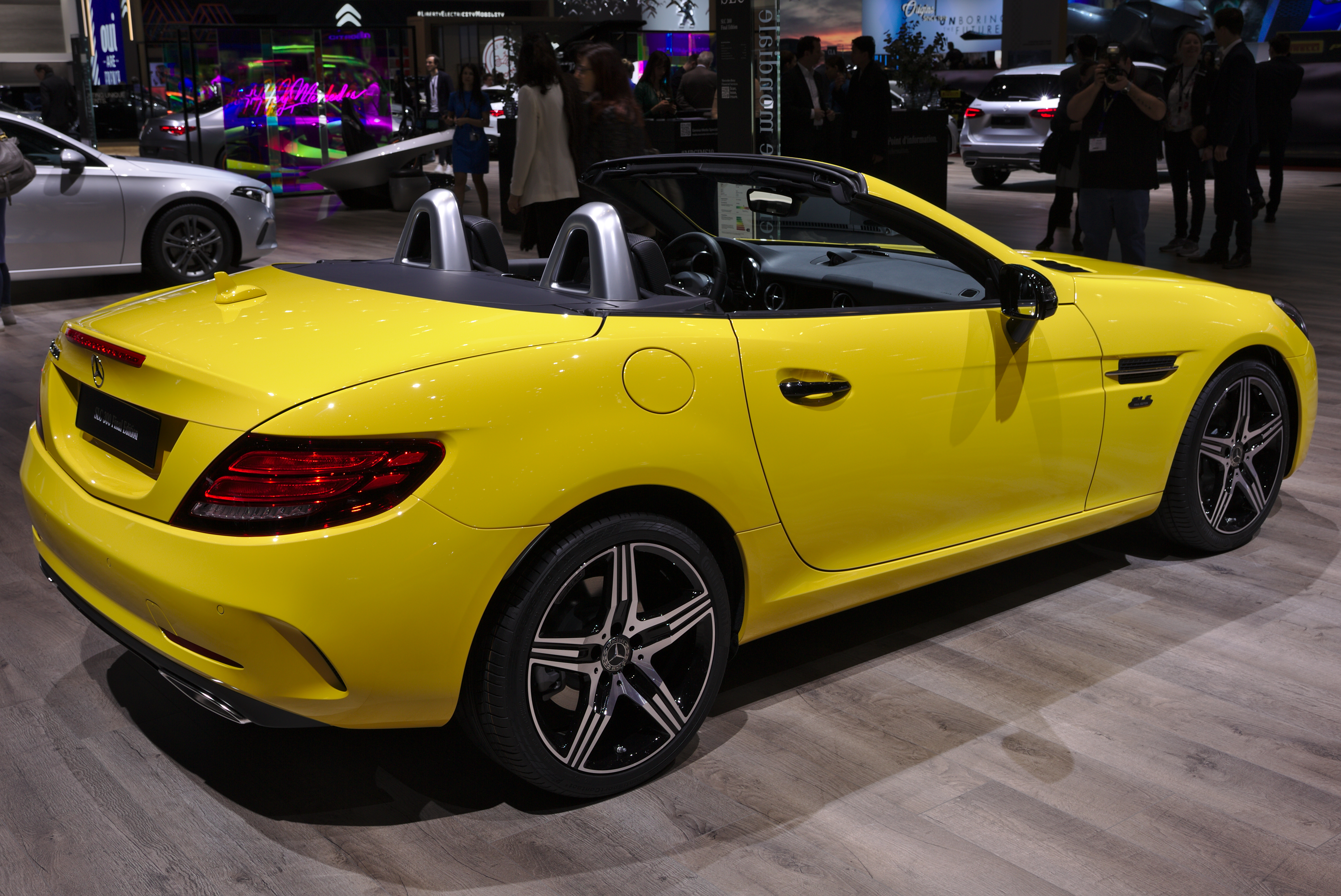 Mercedes-Benz SLC 300 Final Edition at Geneva Motor Show 2019